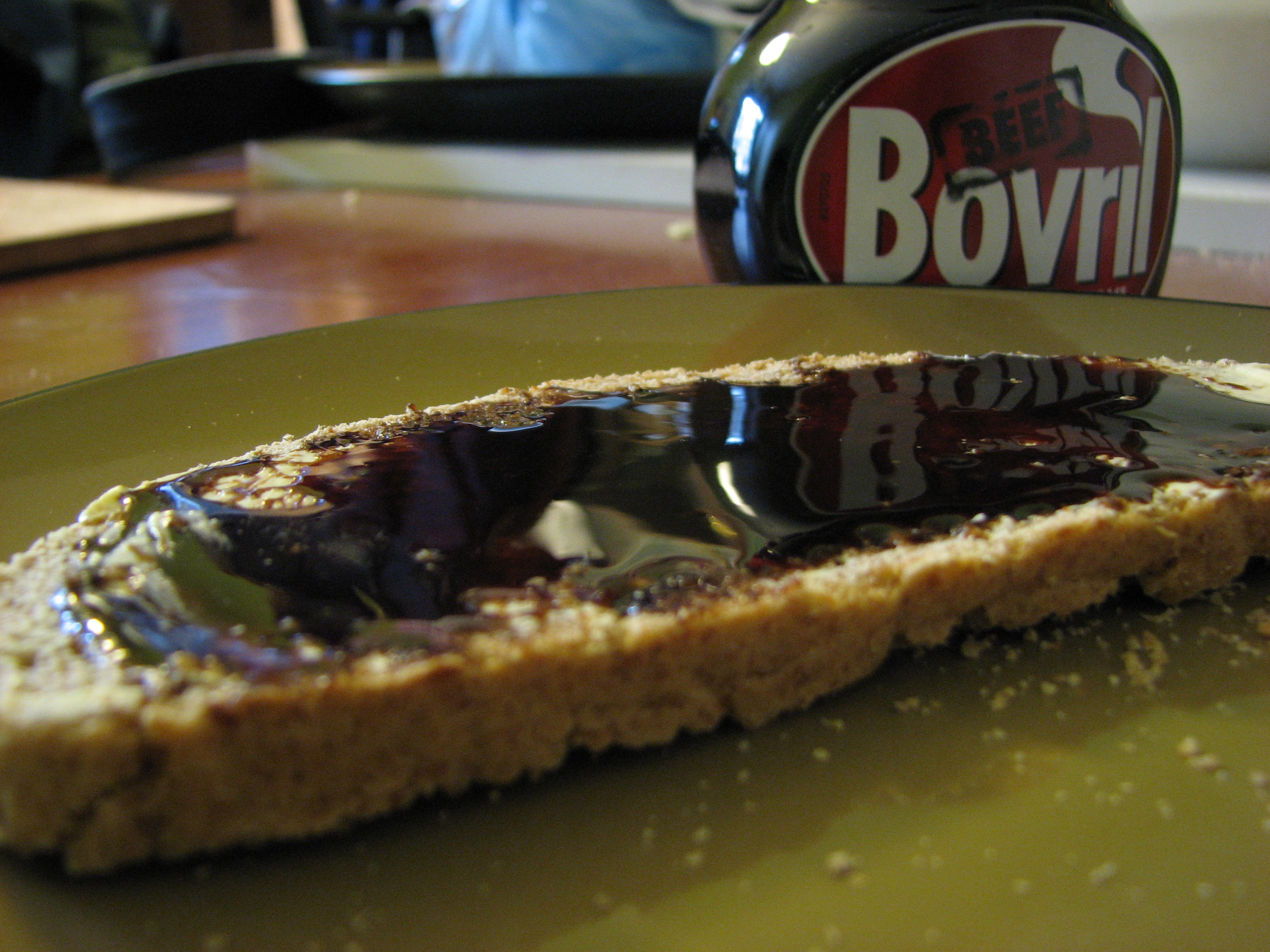 Small jar of Beef Bovril and Bovril on a slice of (sour, 60% rye, 40% wheat) Finnish bread.